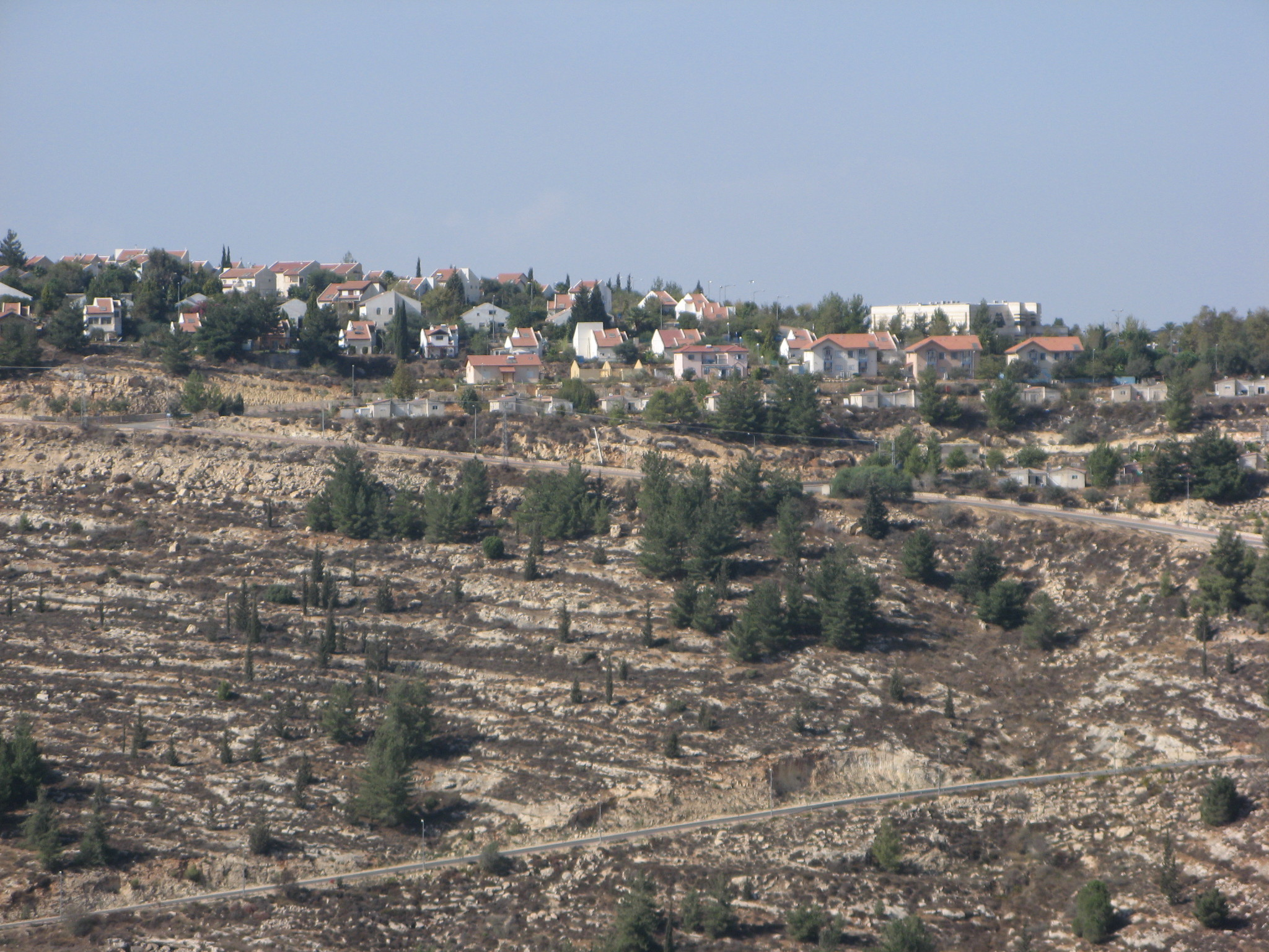 The settlement of Eli from Givat Harel